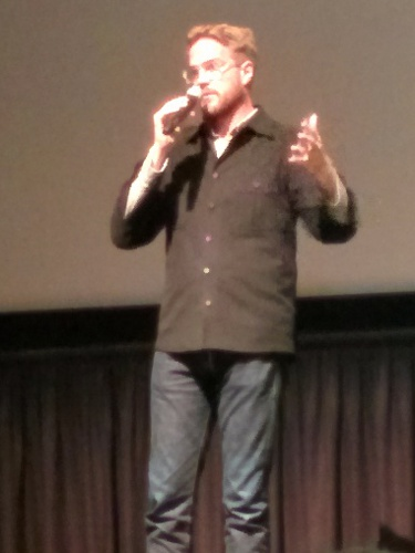 Patrick Brice at a Q&A session for The Overnight at the Sundance Kabuki in San Francisco, California, United States